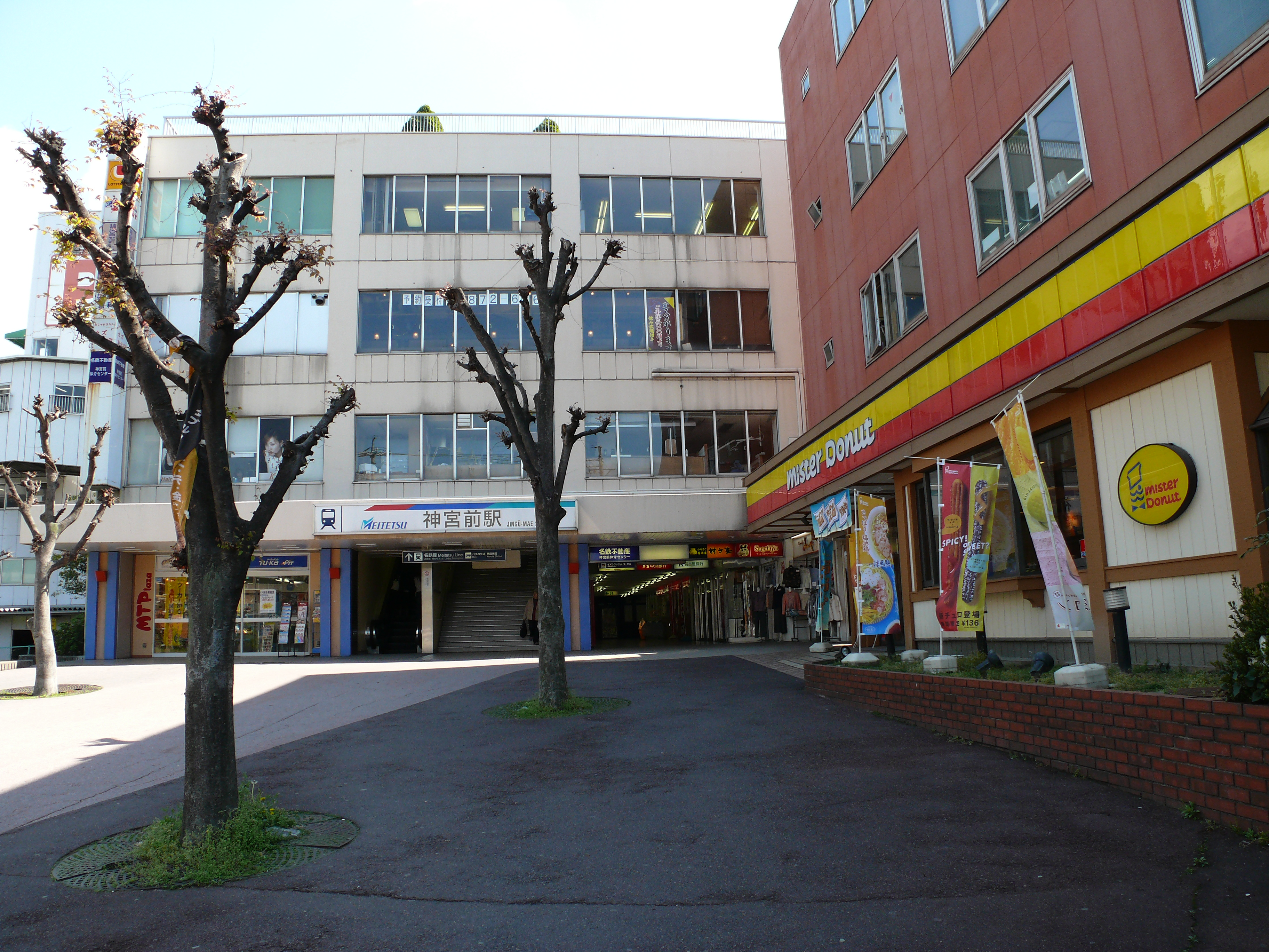 Meitetsu Jingu Mae Station.